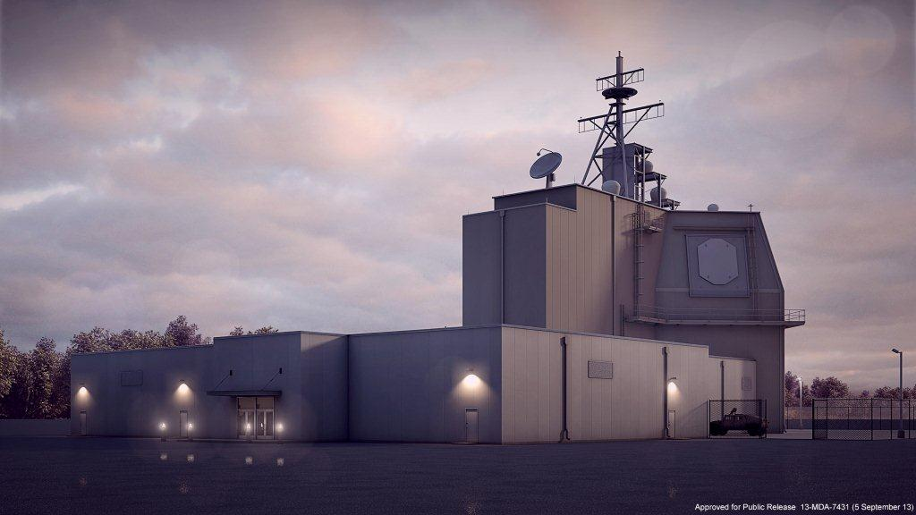 The U.S. Army Corps of Engineers Europe District is managing the construction of a $134 million Aegis Ashore Missile Defense Complex in Deveselu, Romania. In preparation for construction of this key facility, site activation work totaling $3.3 million has taken place to ready the 269-acre site at Deveselu Air Base for the project. A Romanian contractor, SC Glacial PROD SRL, constructed temporary facilities including offices, containerized housing, a warehouse and vehicle inspection area in support of the U.S. Ballistic Missile Defense complex project. Key partners representing the U.S., Romania and NATO will officially break ground on the Aegis Ashore Missile Defense project Oct. 28. The Aegis Ashore site in Romania is scheduled to be operational in the 2015 time frame.